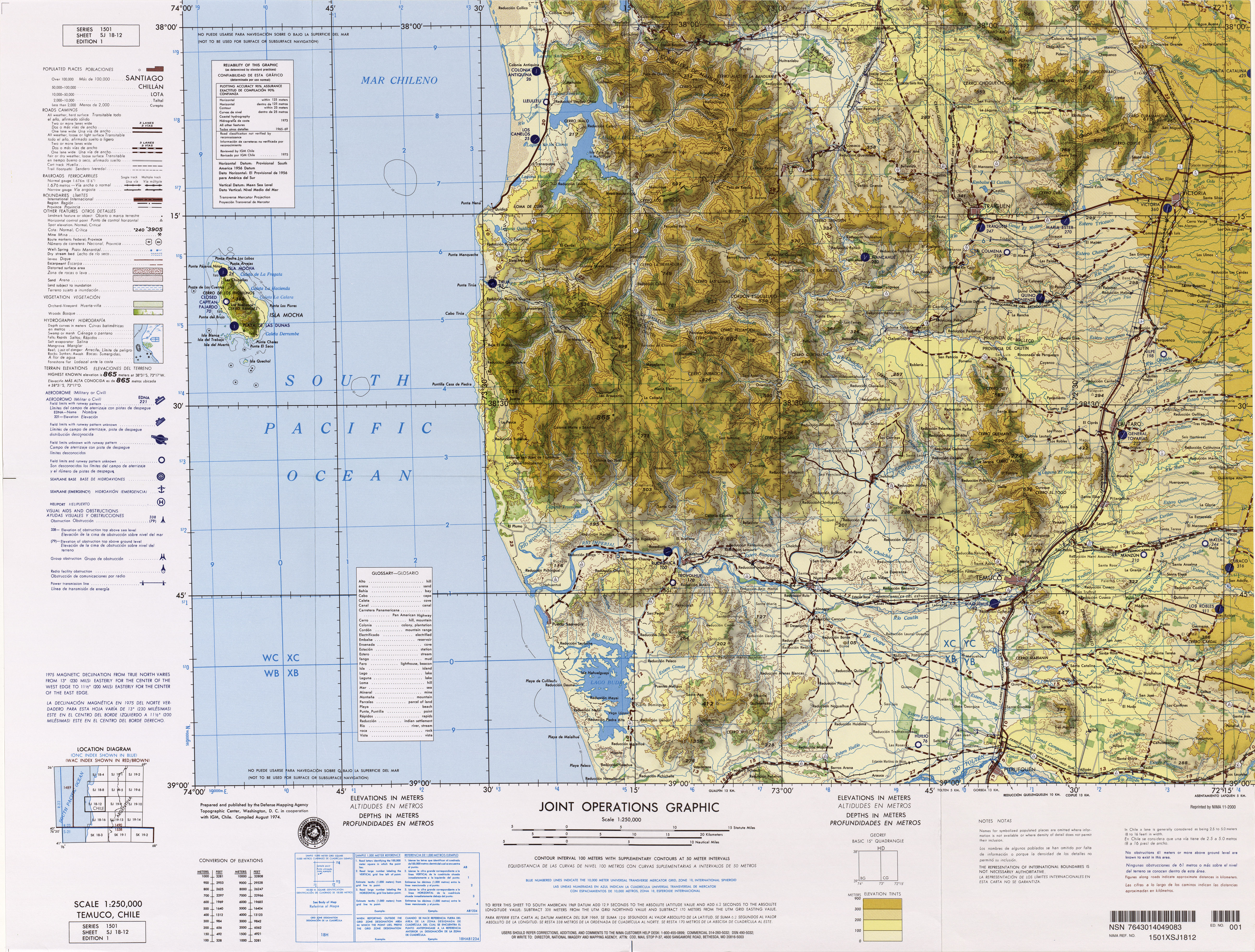 Nahuelbuta, Imperial, Temuco, Tirua, Traigen, Victoria, Isla Mocha